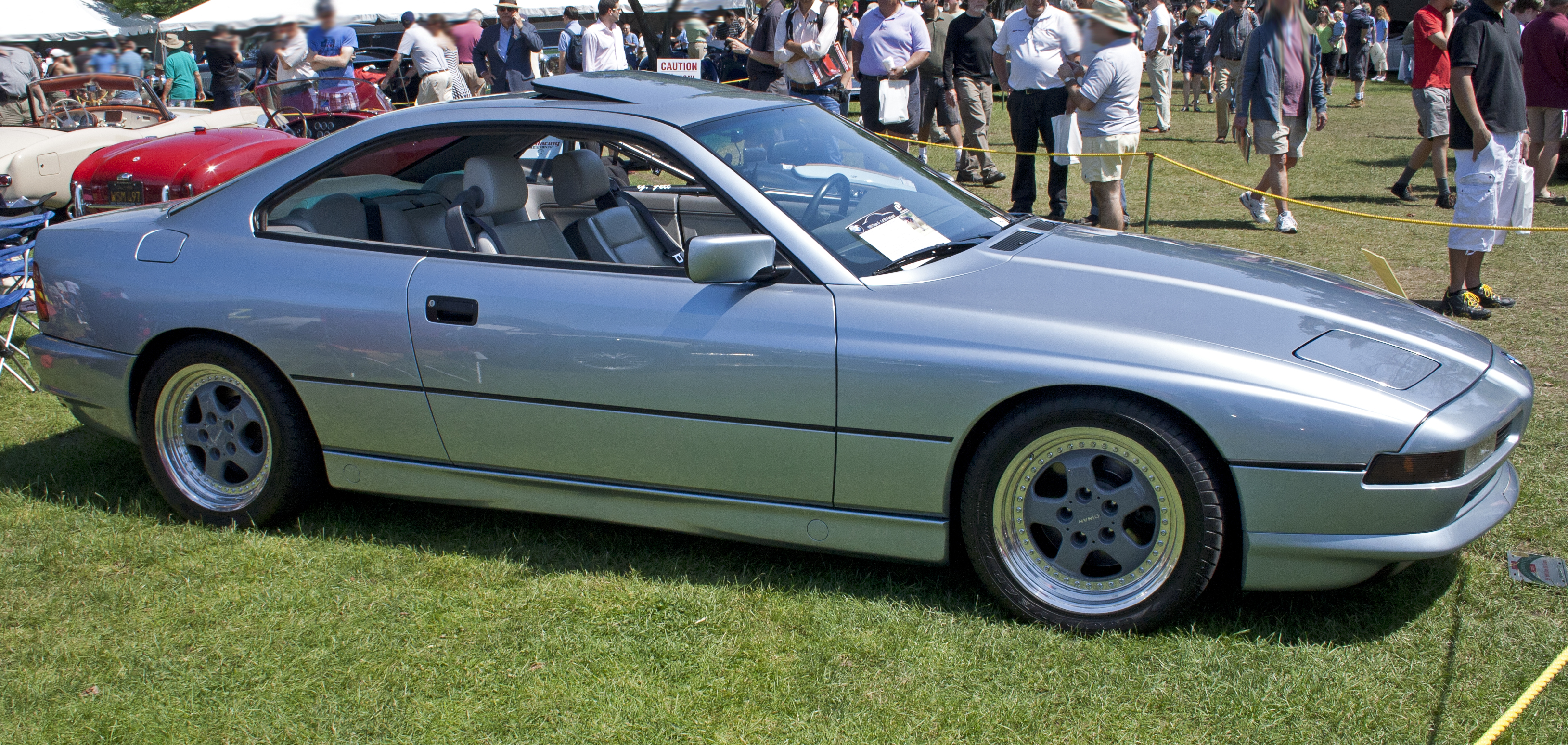 1991 Dinan 8 - one of fifty period conversions of the BMW 850i, fitted with twin turbos for a total of 525 hp. Suspension and cosmetic changes also took place, with DP Motorsport wheels fitted. Seen at the 2012 Greenwich Concours d'Elegance.